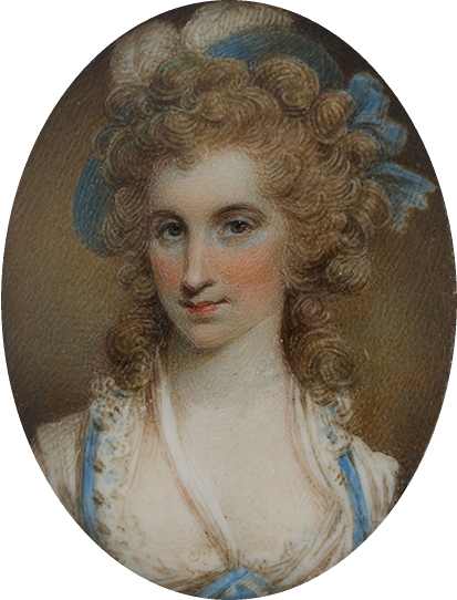 Portrait miniature by Samuel Shelley (1750–1808), thought to depict Angelica Schuyler Church (1756–1814), wearing a white dress with blue trim and lace collar, a blue hat with bow decorated with a white feather, her hair worn with hanging ringlets Watercolour on ivory 18th Century Oval, 1 7/8in, (48mm) high Provenance: Edward Grosvenor Paine by whom sold; Christie’s, London, 28 October 1980, lot 103; Private collection, France.